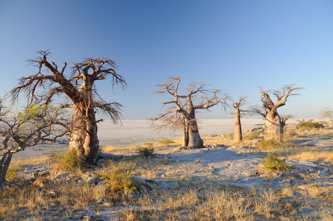 Kubu Island, Makgadikgadi Pans - between Sowa Pan and Ntwetwe Pan, May 30th 2008